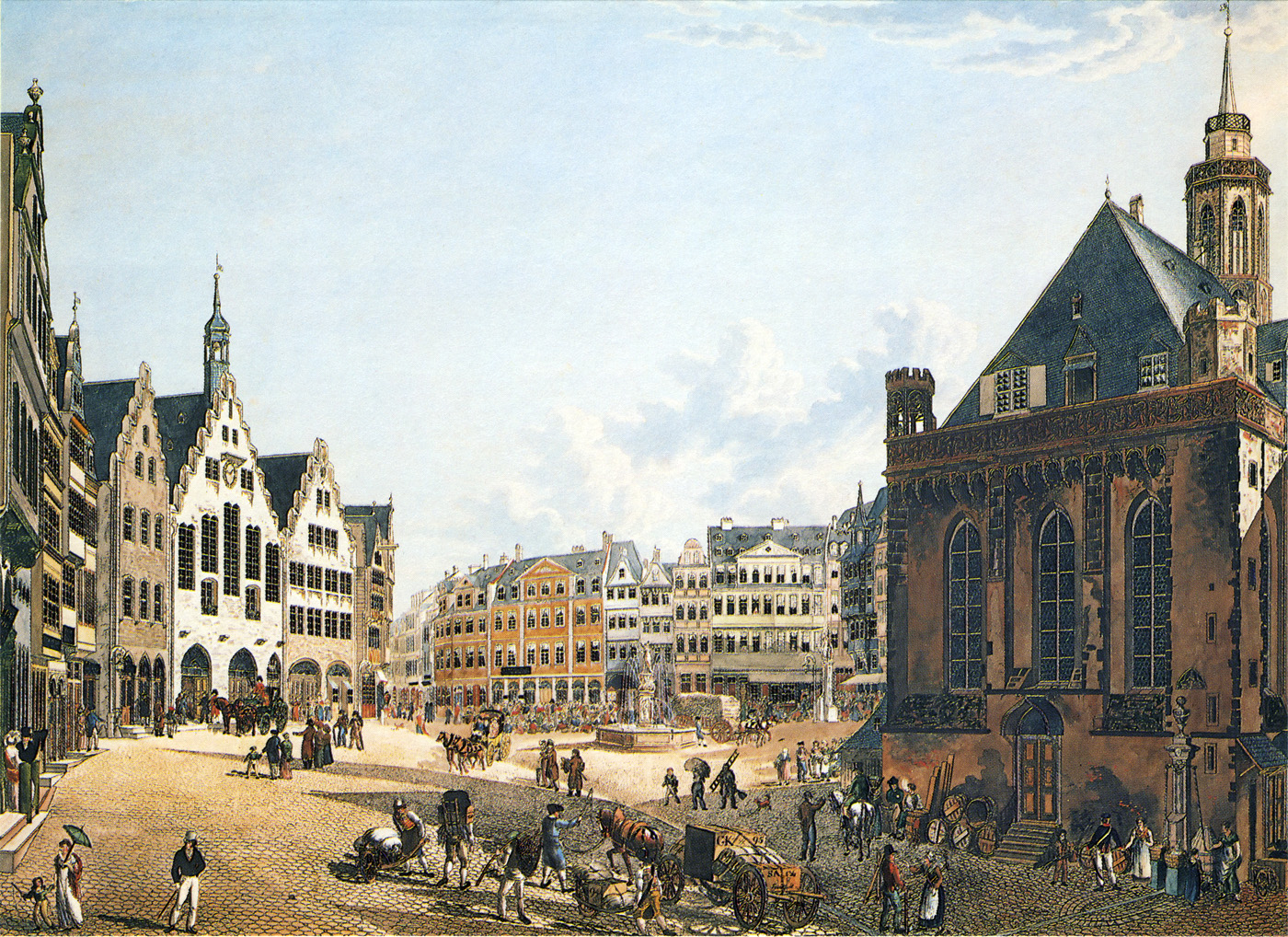 Prospect of the Roemerberg of Frankfurt on the Mayn with Old Saint Nicholas church; coloured copper engraving